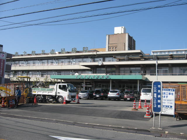 Hirakata Municipal Hospital